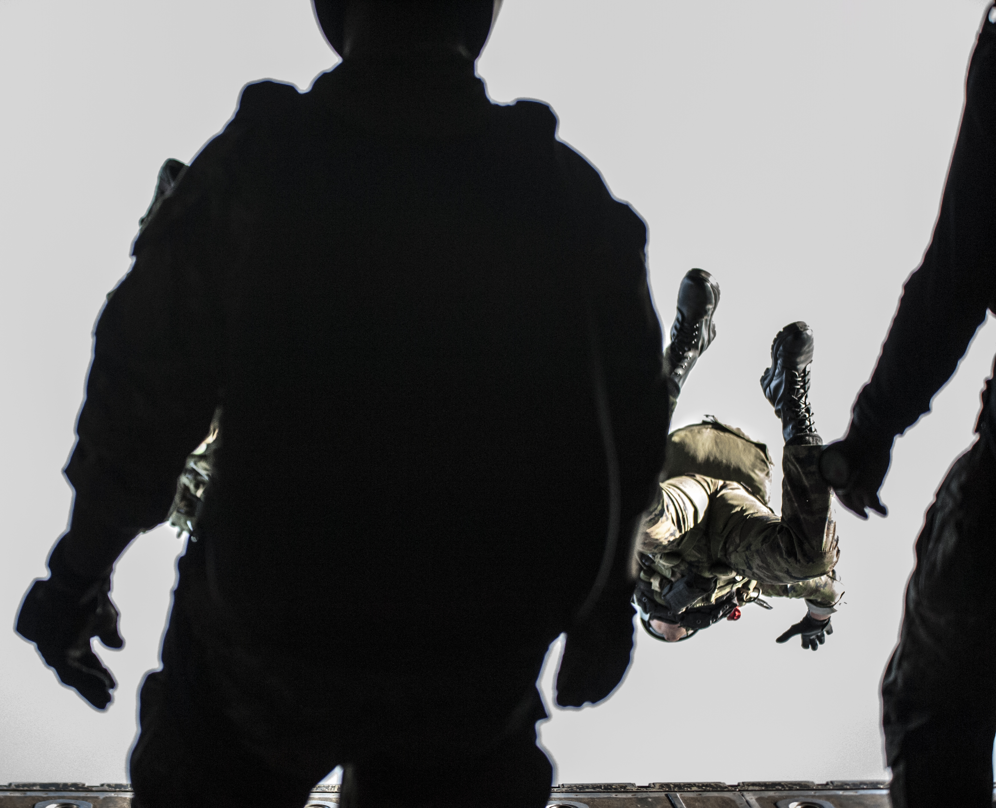 Royal Thai Naval Special Warfare operators perform military free fall operations from a U.S. Air Force 1st Special Operations Squadron MC-130H Combat Talon II Feb. 15, 2018, at U-Tapao, Thailand. U.S. Naval Special Warfare Group 1 Seal Team 3 operators assisted Royal Thai Naval Special Warfare operators with airborne infiltration training to further develop the integration of forces across U.S. and Thai special operations forces. (U.S. Air Force photo by Capt. Jessica Tait)